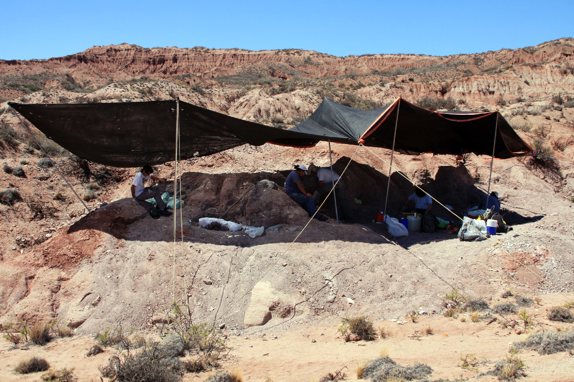 Fossil quarry where the remains assigned to Leinkupal laticauda were recovered.